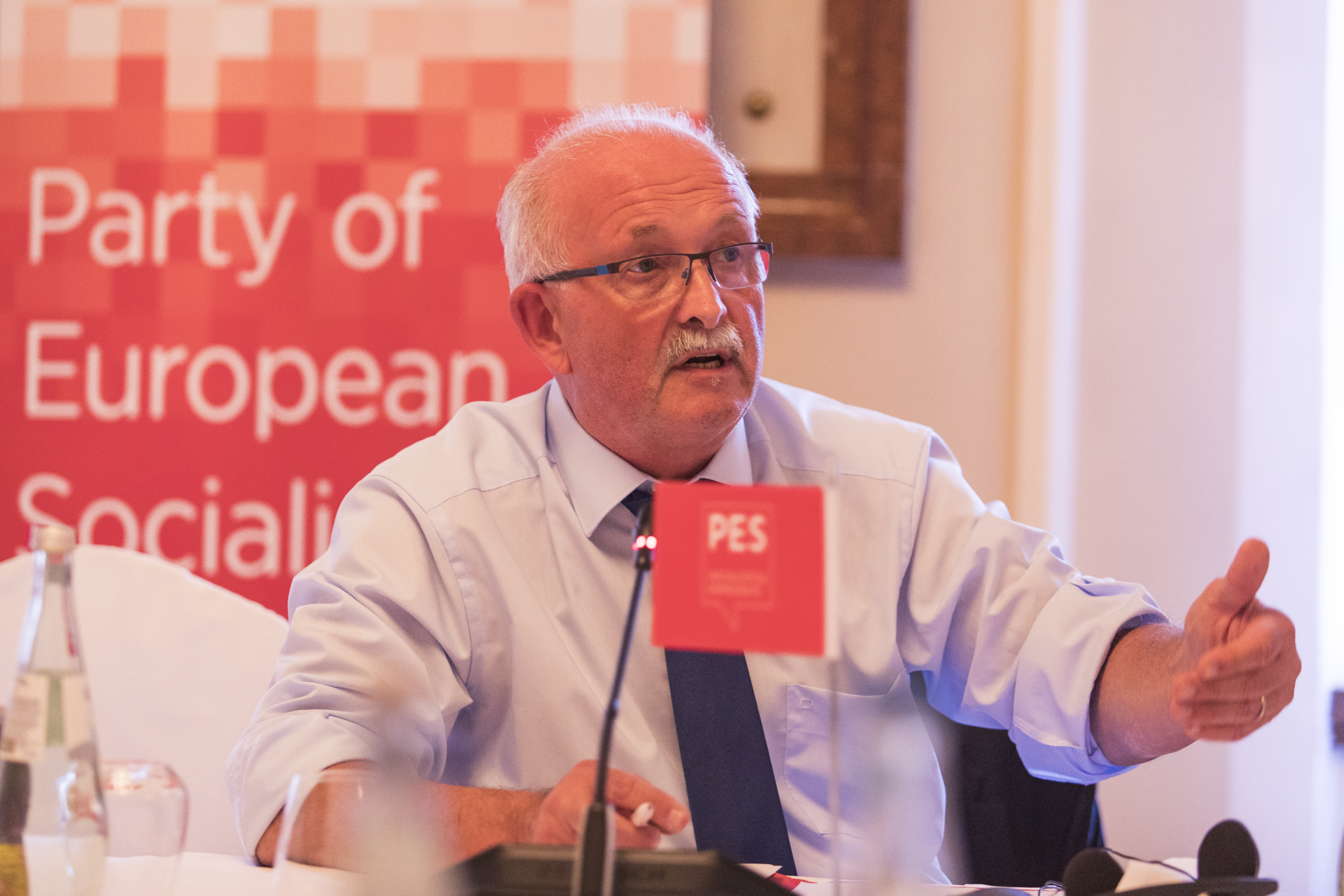 Udo Bullmann at the PES preparatory meeting ahead of the Salzburg informal EU council